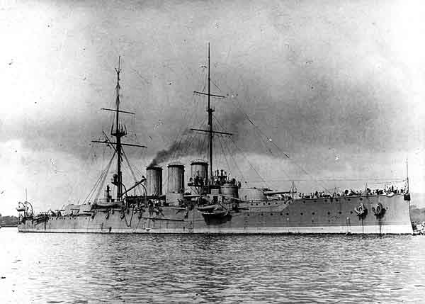 Imperial Russian armored cruiser Ryurik in Toulon.